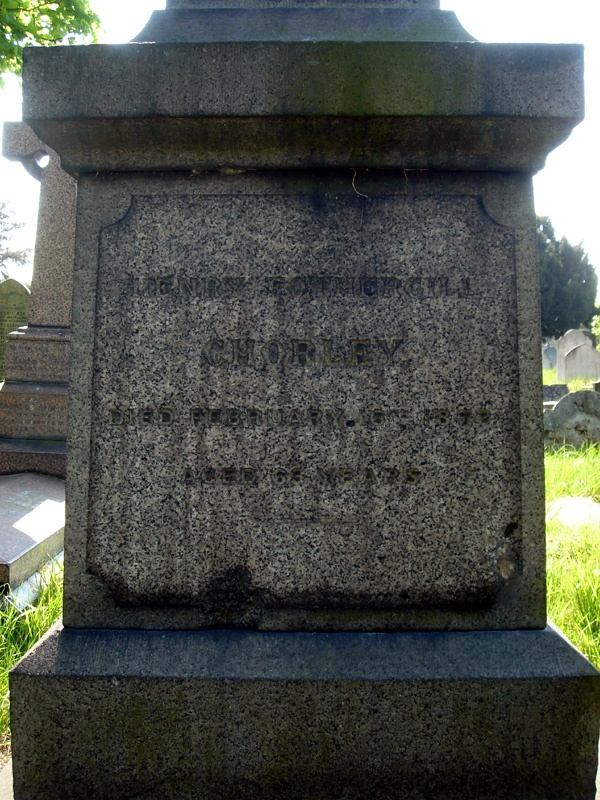 Henry Fothergill Chorley funerary monument detail, Brompton Cemetery, London